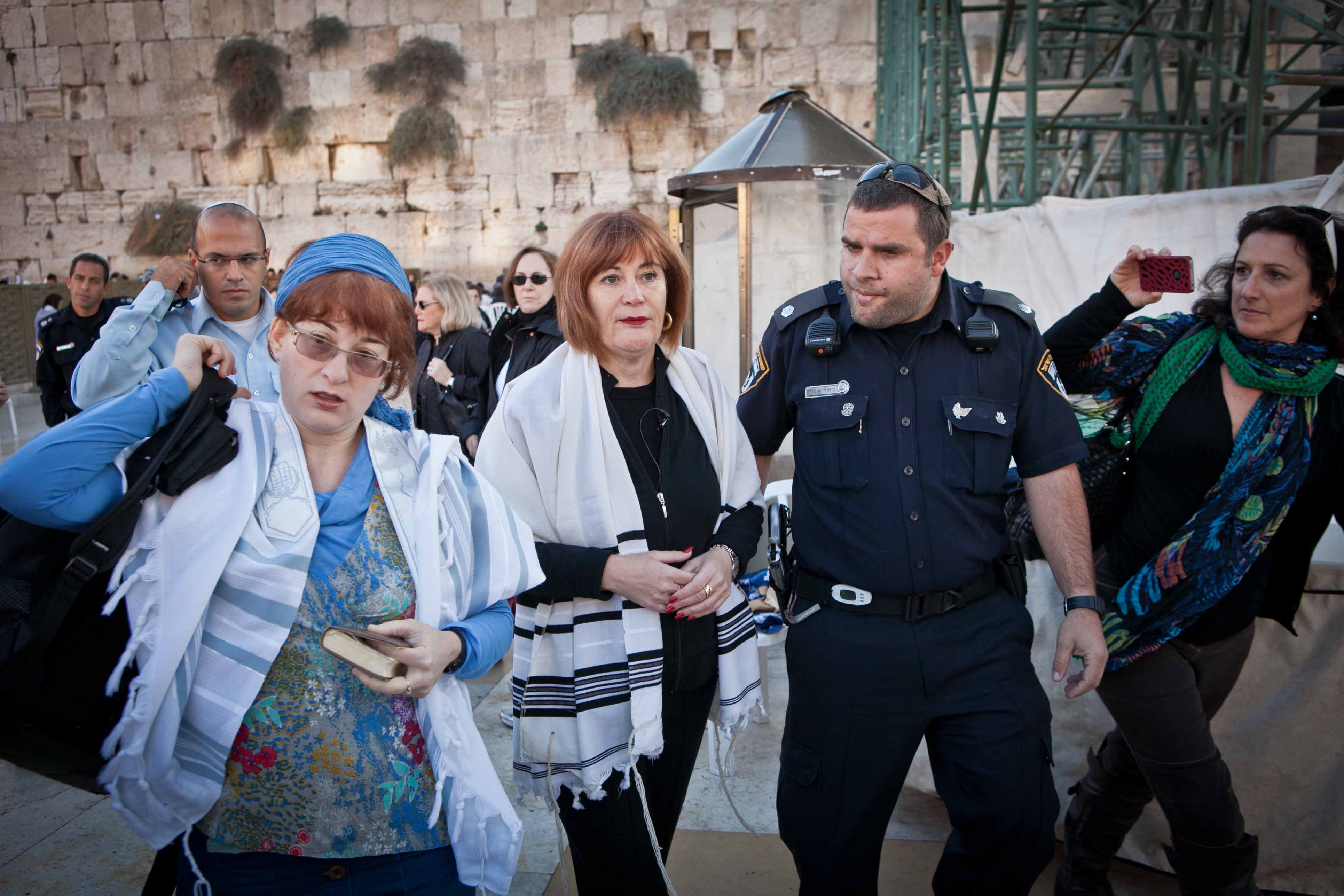 Lesley Sachs and Rachel Cohen Yeshurun, of Women of the Wall, being detained by police officer for wearing Tallit in the Kotel. Rosh Chodesh Kislev 5773.